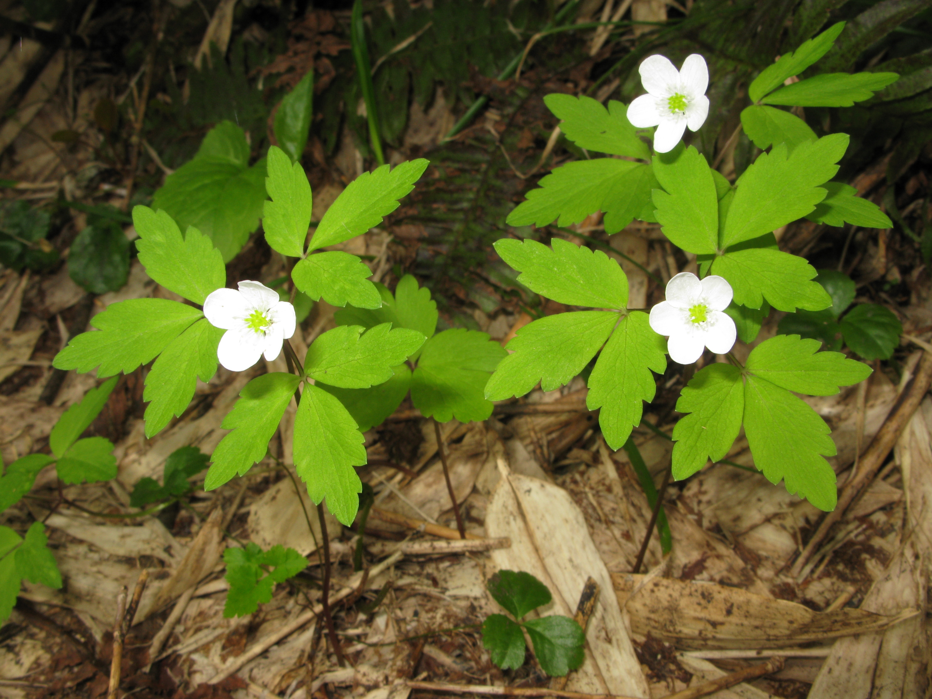 Anemone soyensis, Mount Gassan, Yamagata pref., Japan